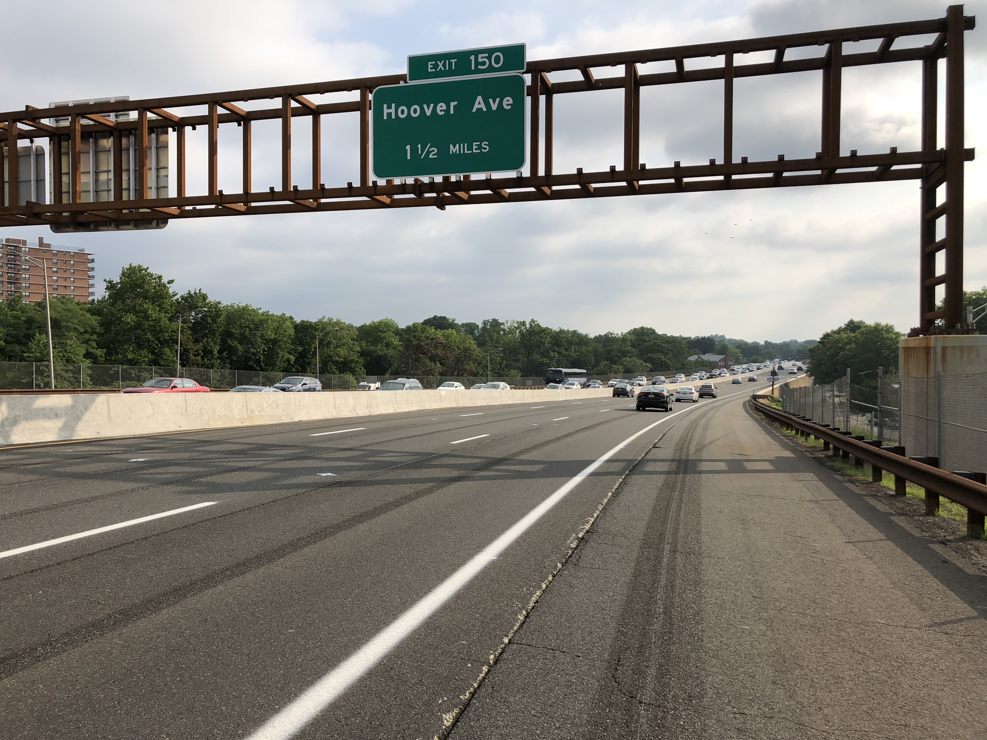 View north along New Jersey State Route 444 (Garden State Parkway) between Exit 148 and Exit 150 in Bloomfield Township, Essex County, New Jersey